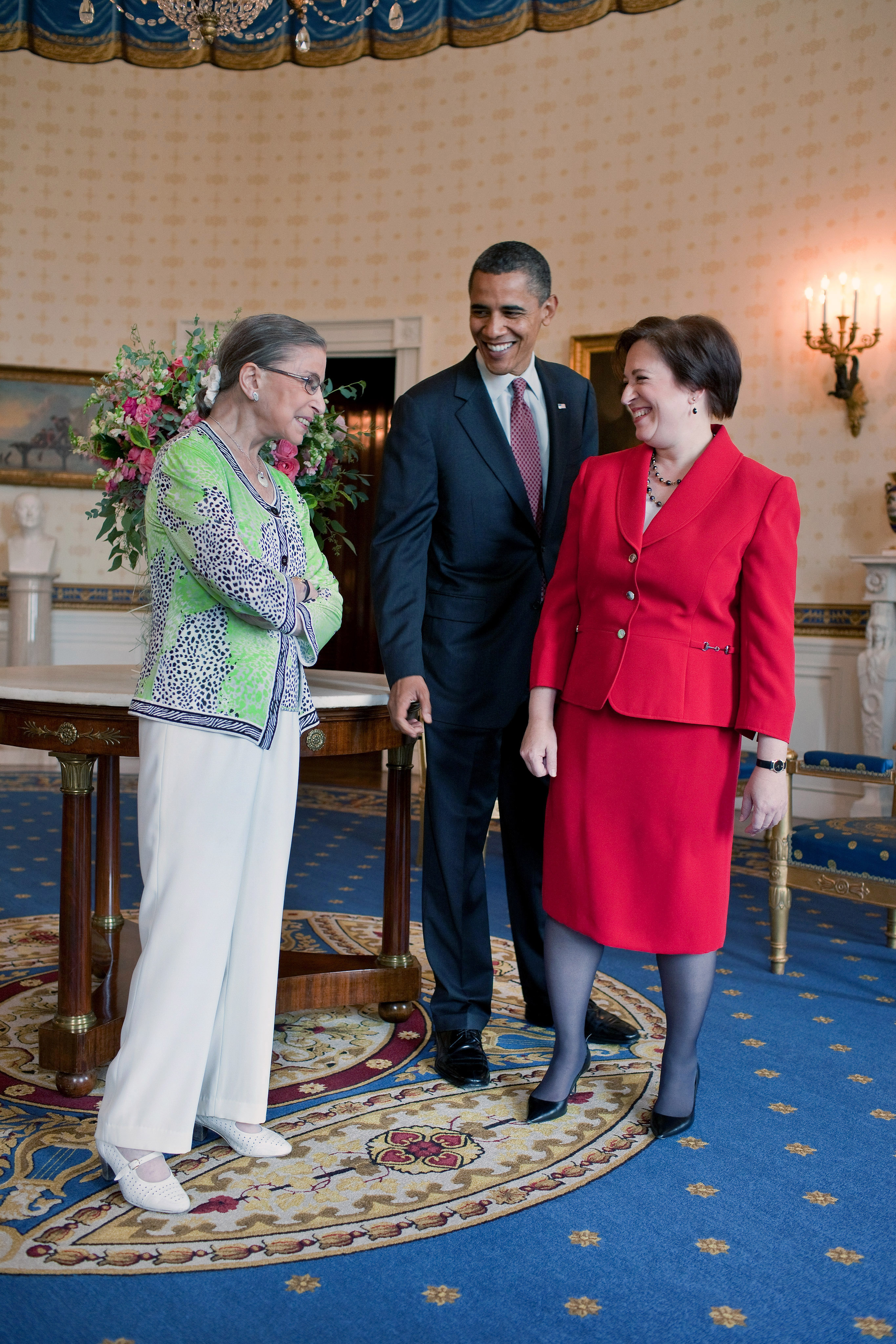 President Barack Obama visits with Supreme Court Justice Ruth Bader Ginsburg and newly confirmed Supreme Court Justice Elena Kagan in the Blue Room of the White House, prior to Kagan's confirmation reception in the East Room, Aug. 6, 2010. (Official White House Photo by Pete Souza) This official White House photograph is in the public domain from a copyright perspective, so while restrictions such as personality or privacy rights may apply, in general, manipulations are allowed.